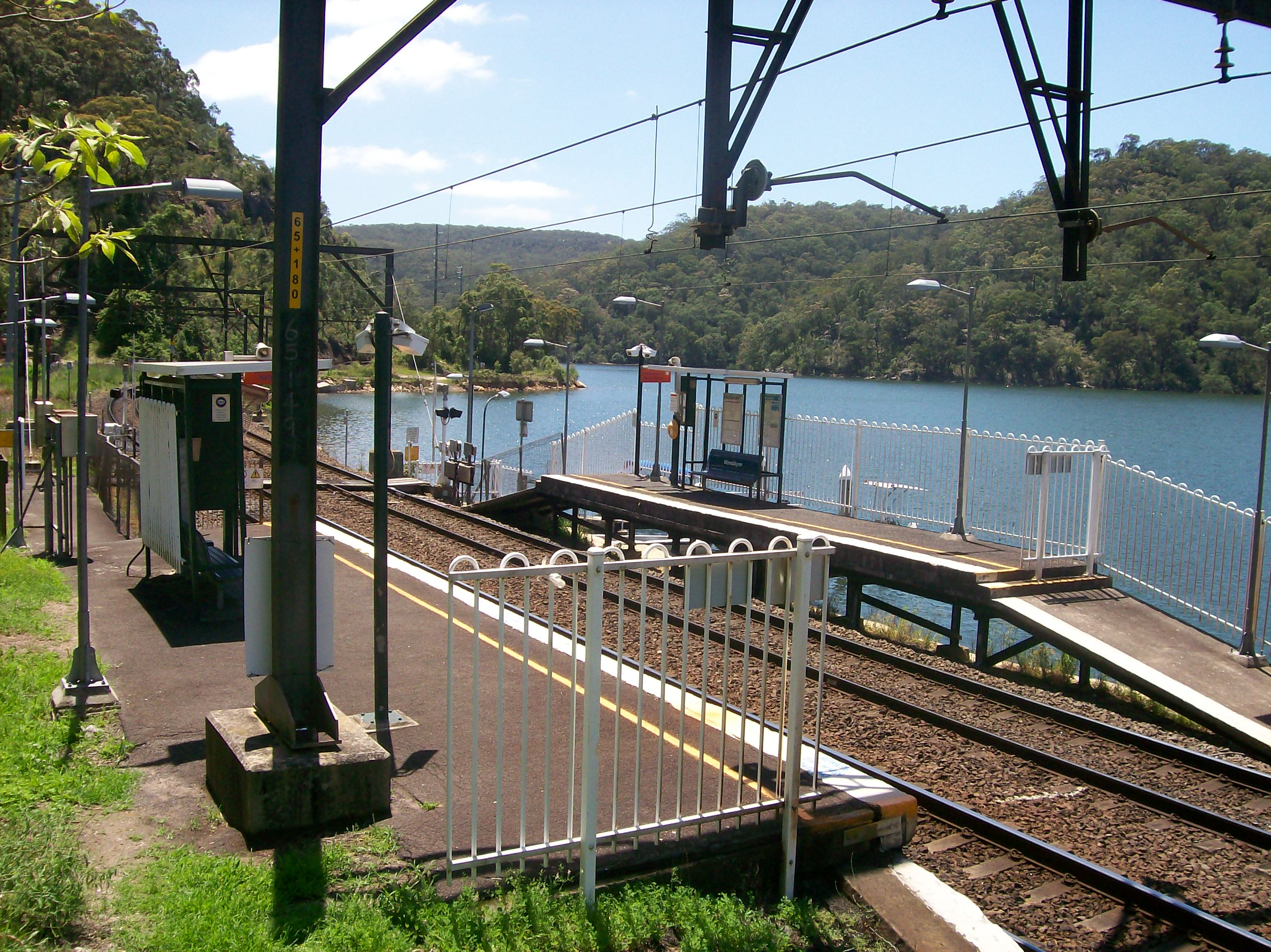 Wondabyne railway station